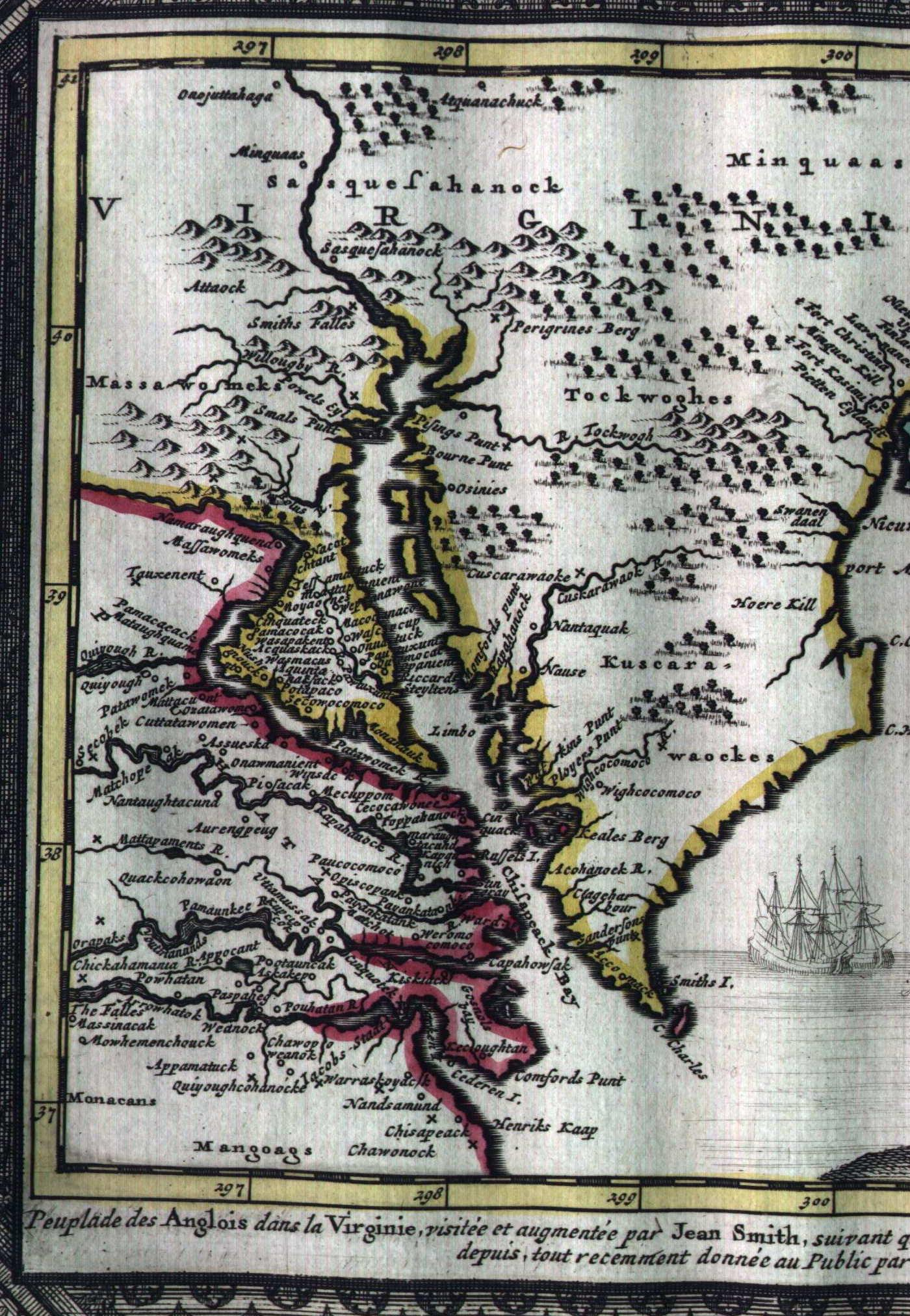 clip from D'ENGELZE VOLKPLANTING IN VIRGINIE DOOR IOHAN SMITH